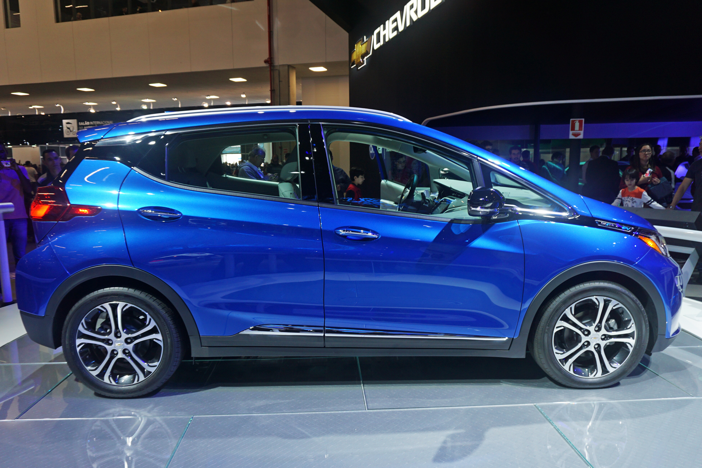 Lateral view of the 2017 Chevrolet Bolt EV at the Salão Internacional do Automóvel 2016 São Paulo, Brazil